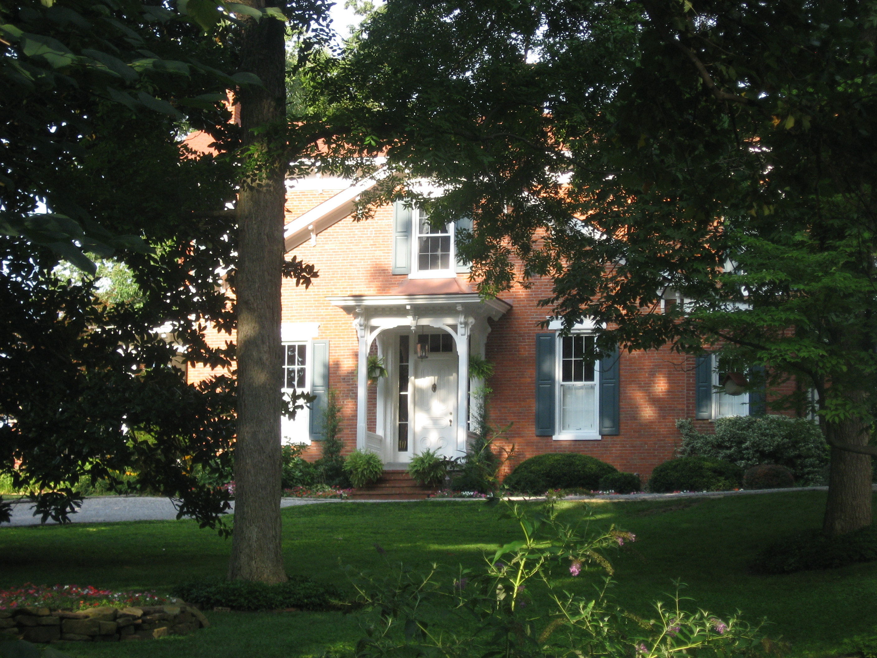 Front of the Mathias Sharp House, located at 319 S. Second Street in Rockport, Indiana, United States. Built in 1867, it is listed on the National Register of Historic Places.